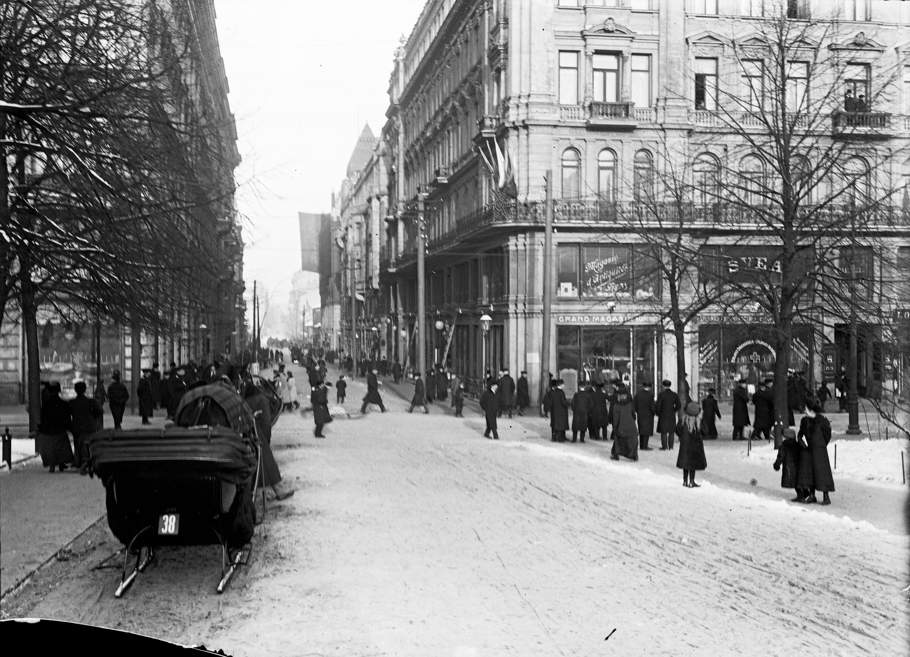 Mikaelsgatan. Foto Gustaf Sandberg. Ur boken Helsingfors i ord och bild Utgiven av Svenska litteratursällskapet i Finland, 2012